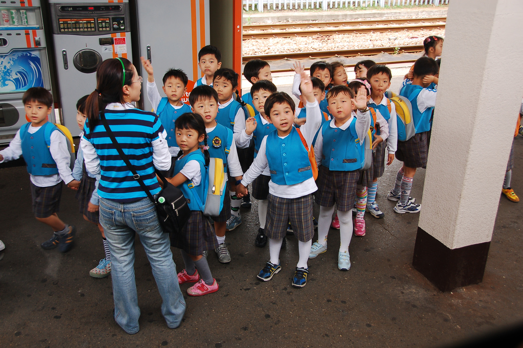 Gyeongju station